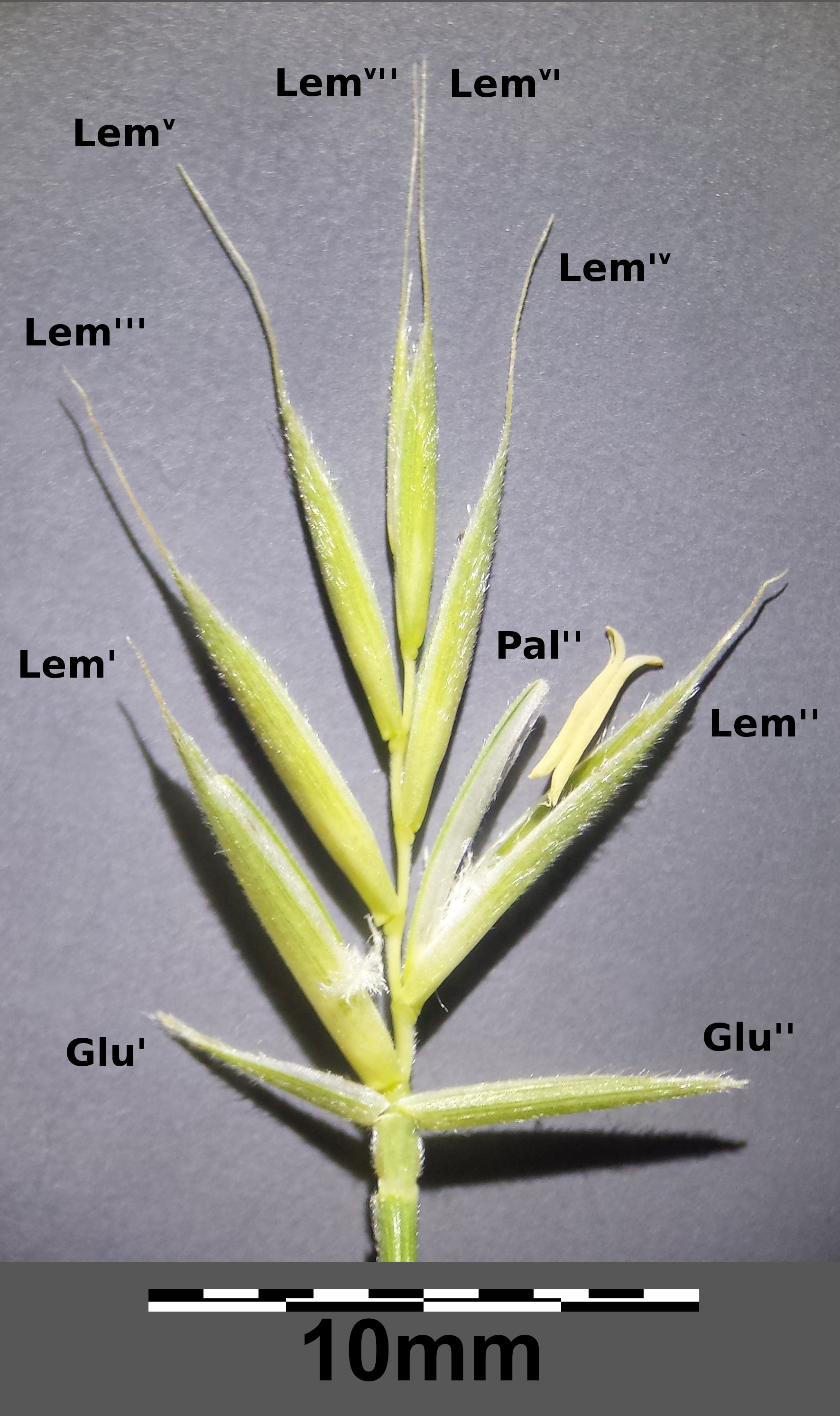 Spikelet Glu = Gluma Lem = Lemma Pal = Palea Taxonym: Brachypodium pinnatum ss Fischer et al. EfÖLS 2008 ISBN 978-3-85474-187-9 Location: Latschenberg near Altenmarkt im Thale, district Hollabrunn, Lower Austria - ca. 330 m a.s.l. Habitat: semi-dry grassland